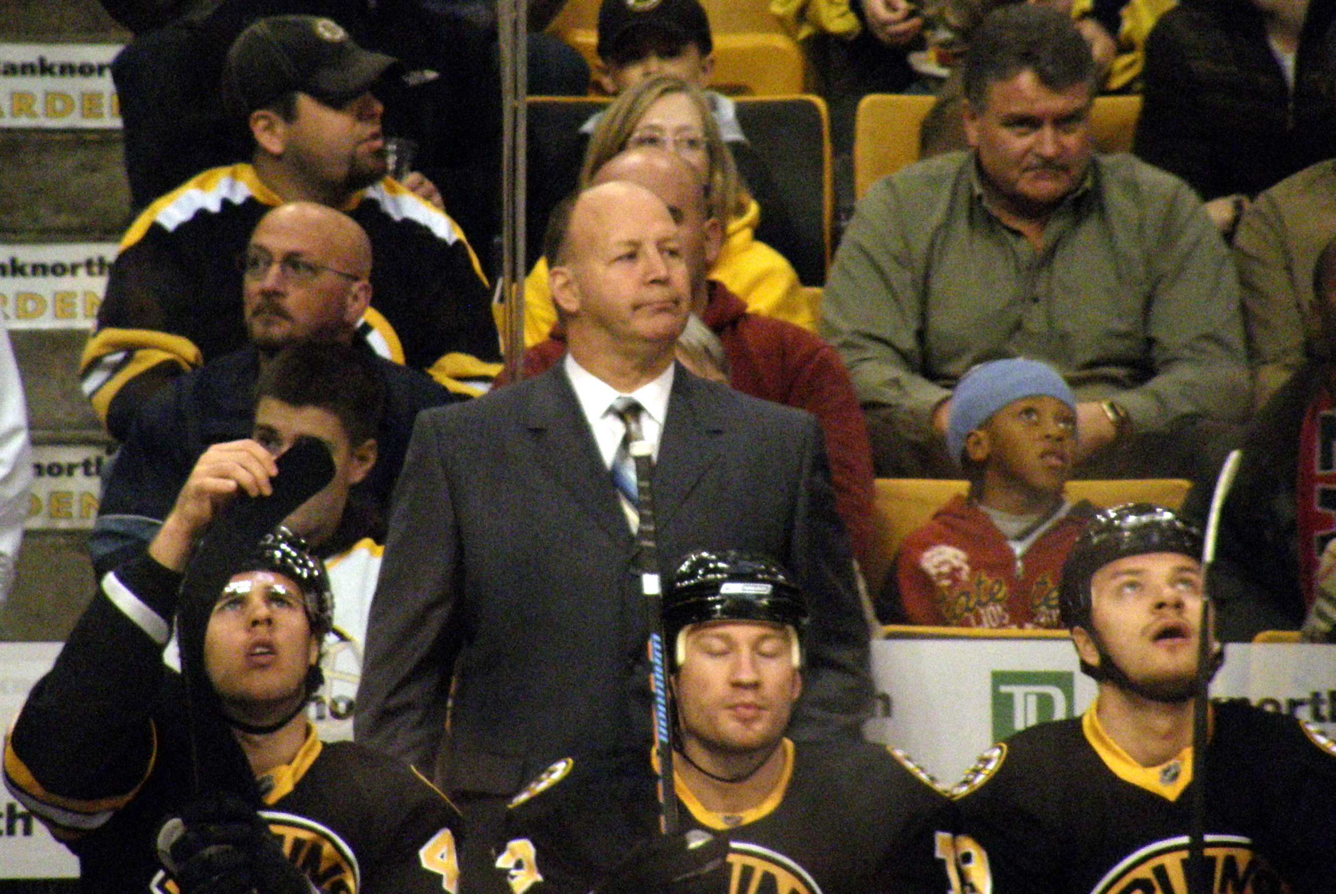 Claude Julien, Canadian ice hockey player, in front of him:David Krejci, Stephane Yelle, Petteri Nokelainen (from left to right)